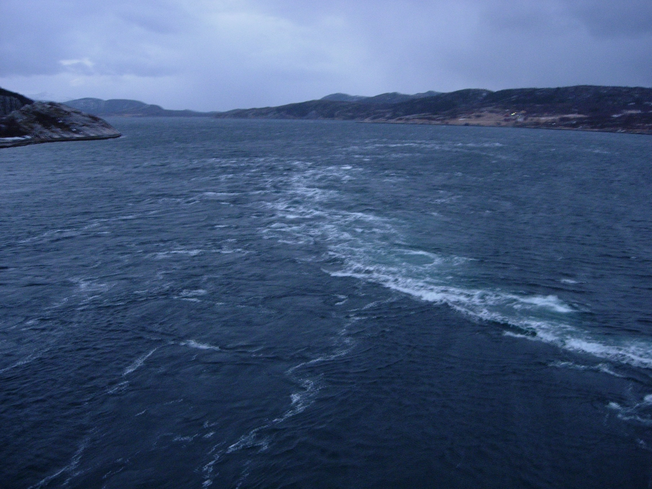 The tidal current under Åselistraumen Bridge, Bodø, Norway.